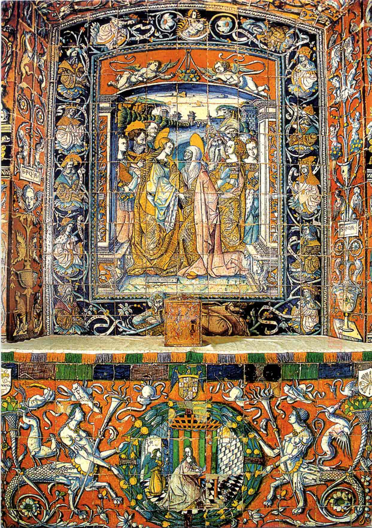 Tin-glazed tiles ("azulejos") painted in 1504 by Francisco Niculoso Pisano for the chapel of the royal Alcazar of Sevilla